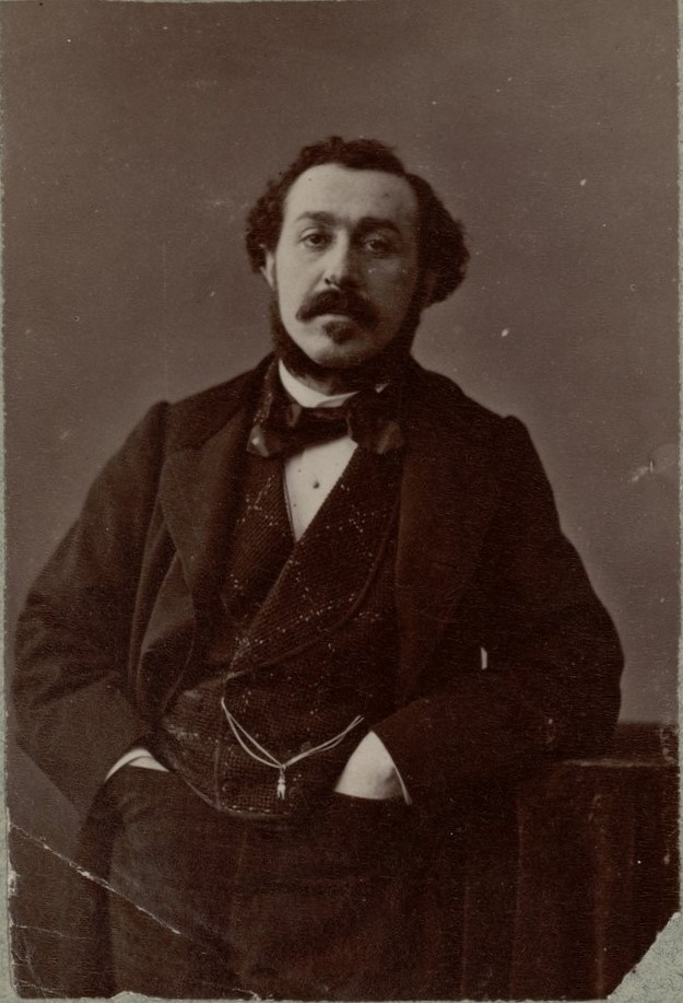 Hector Crémieux, "auteur dramatique" (playwright)